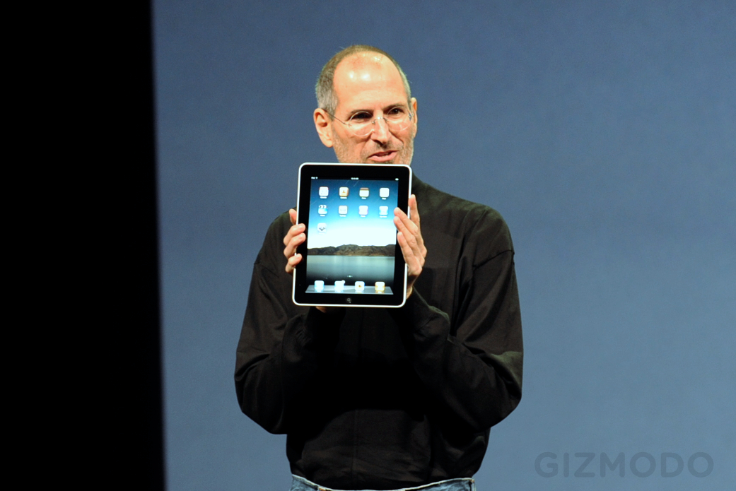 Steve Jobs while presenting the iPad in San Francisco 27th January 2010